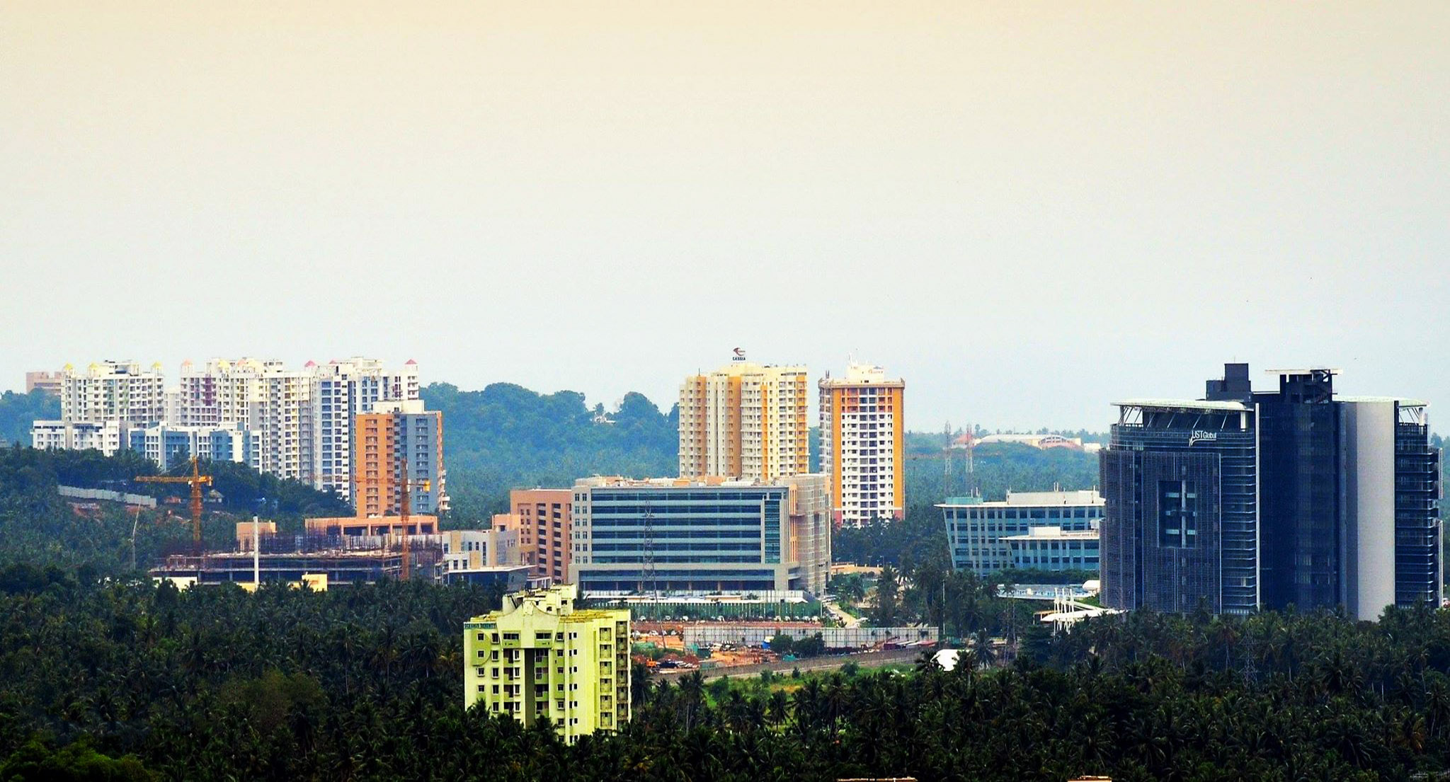 A part of Trivandrum City, Kerala.